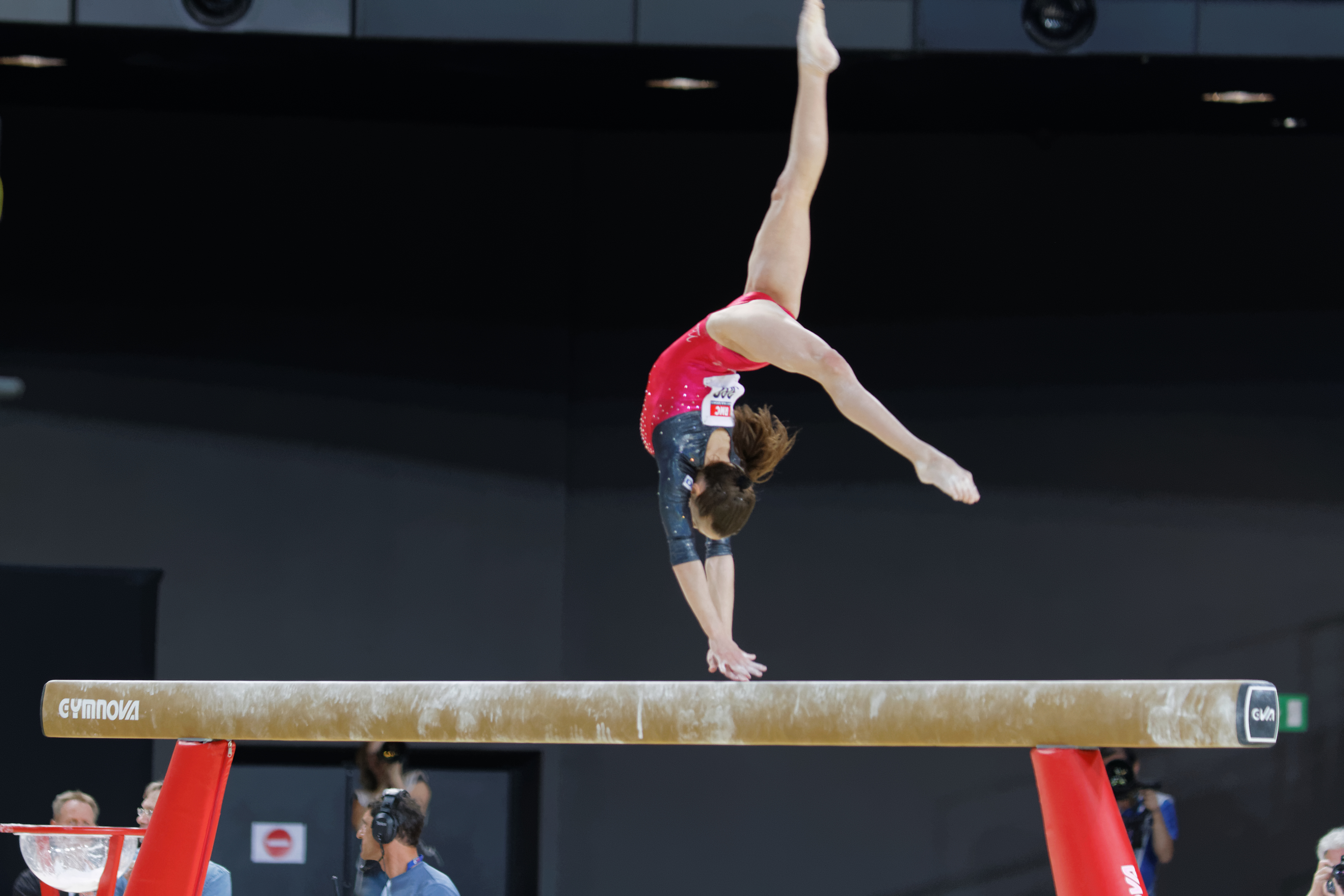 2015 European Artistic Gymnastics Championships. Bamance beam. Andreea Munteanu.